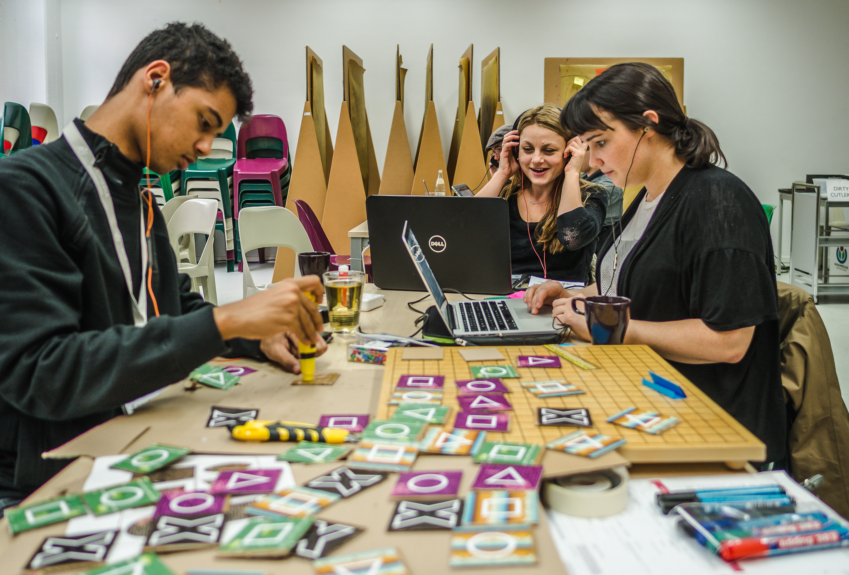 Free Knowledge Game Jammers